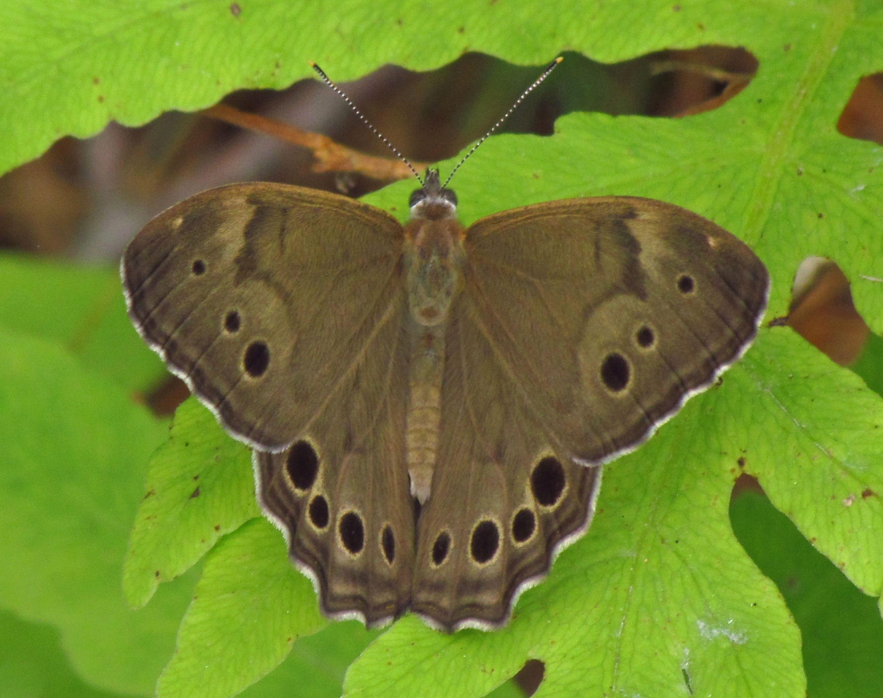 Northern Pearly-eye (Enodia anthedon), dorsal, Larose Forest, Ontario, Canada